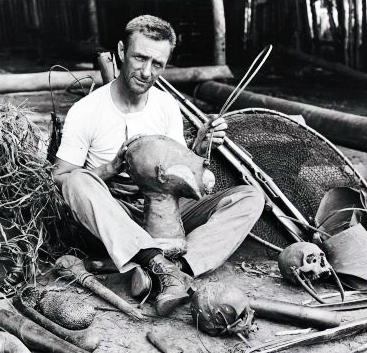 Allan Riverstone McCulloch surrounded by souvenirs in Papua New Guinea